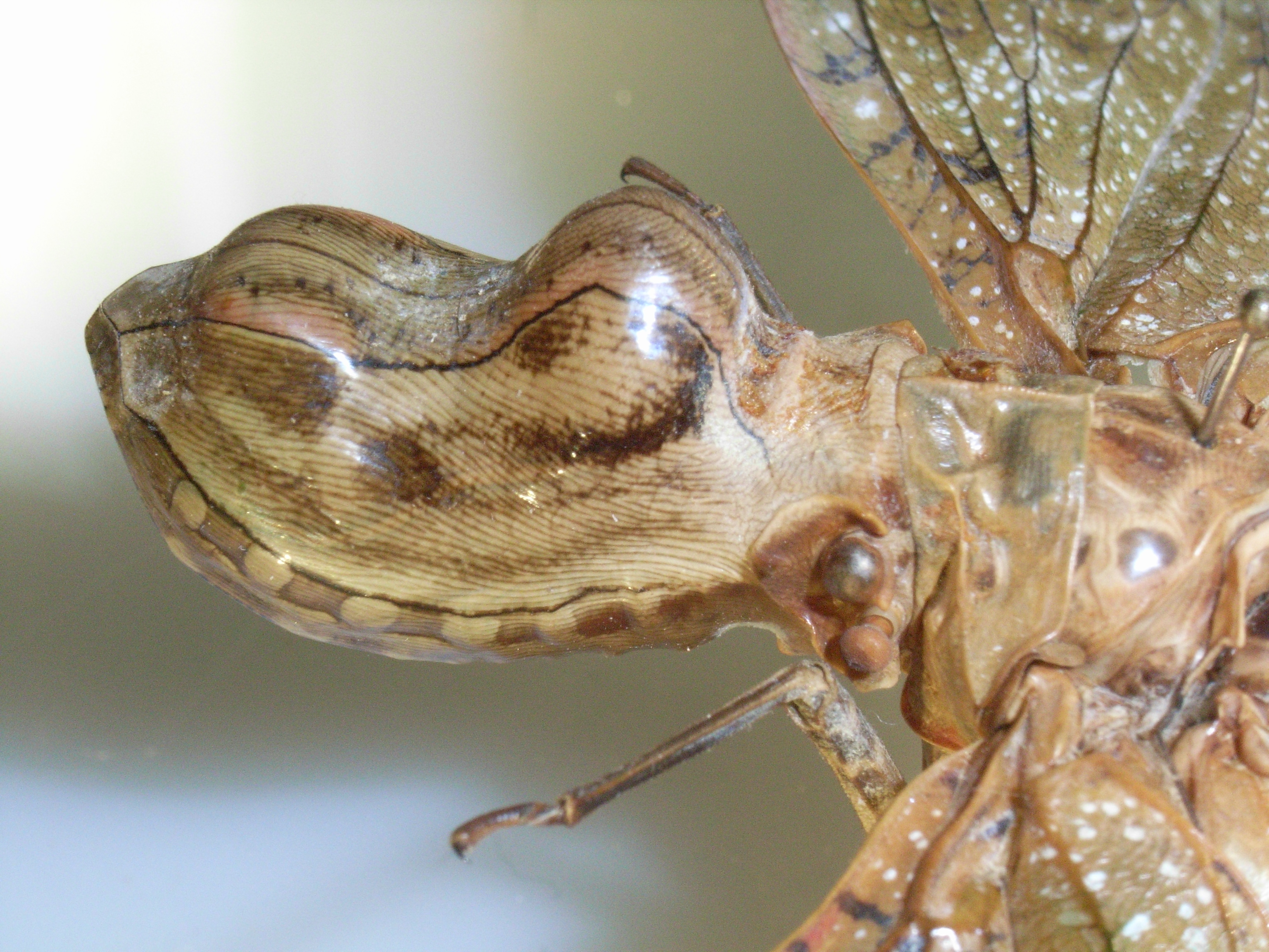 Fulgora laternaria Head Lateral View Ex coll.Felix Stumpe